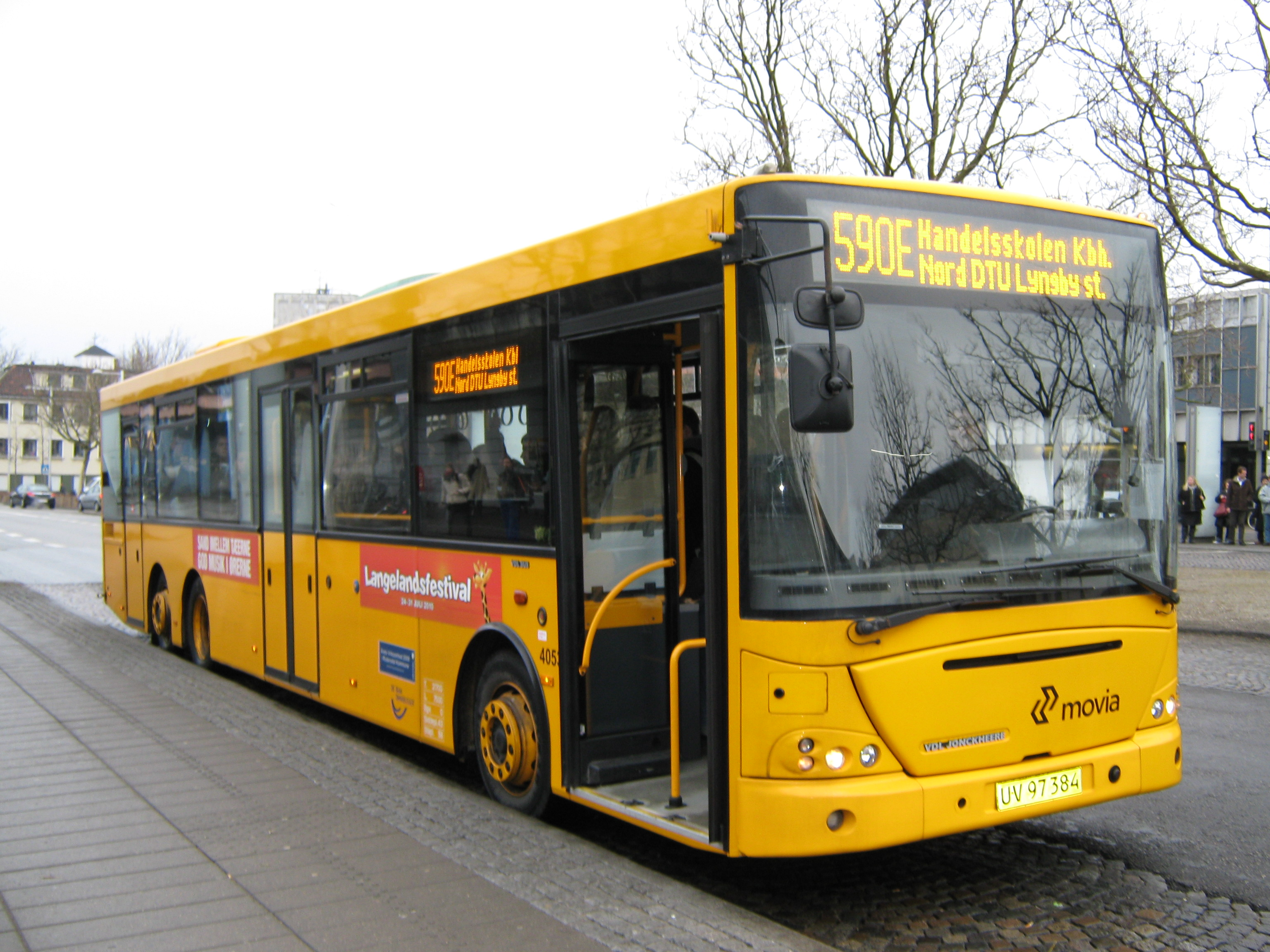 De Blaa Omnibusser 4053 (VDL Jonckheere Transit 2000) at route 590E photographed at Lyngby station